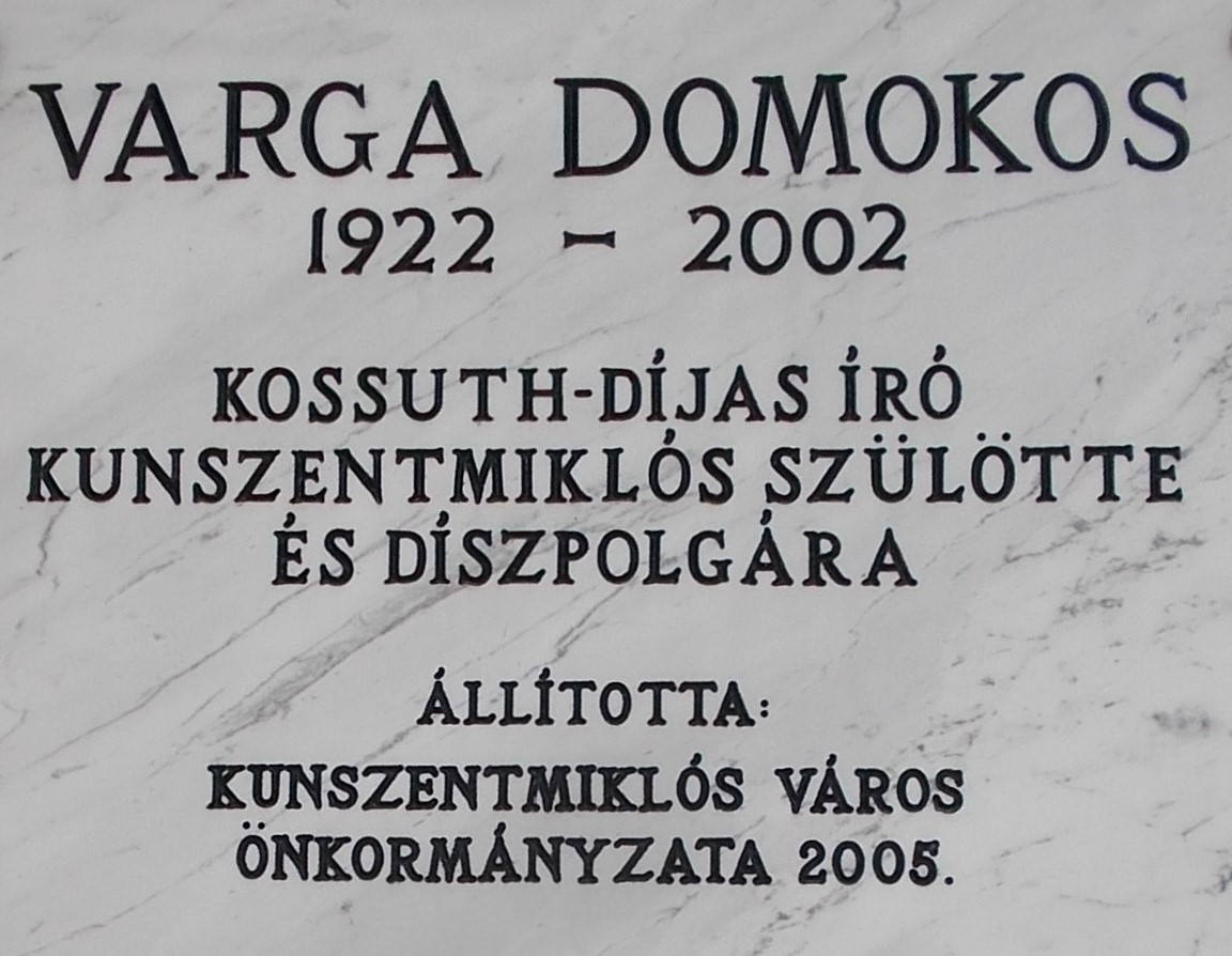 Varga Domokos Elementary School and Art School. - 7 Damjanich utca (Road 5203), Kunszentmiklós, Bács-Kiskun County, Hungary.